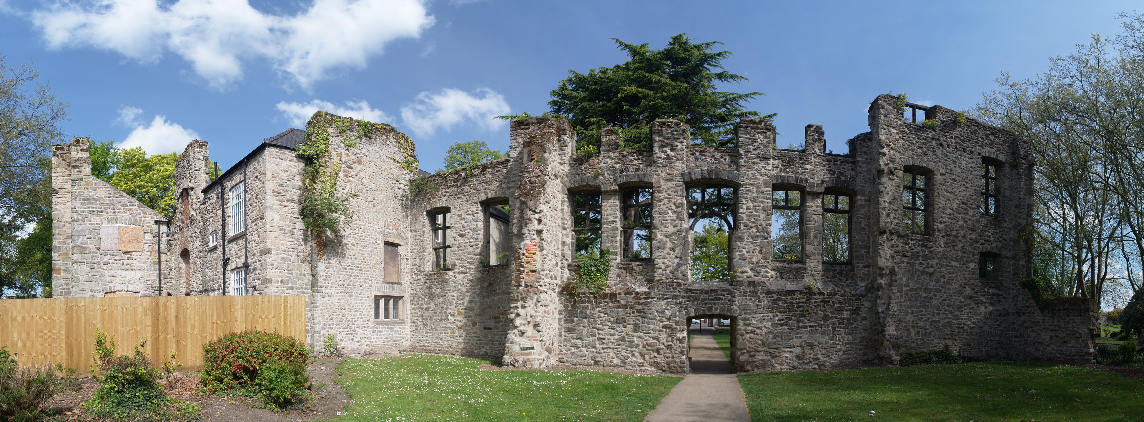 Cavendish House, Abbey Park, Leicester. A Scheduled Monument and Grade I listed building. Note that this is a panoramic image presented in cylindrical perspective, which causes considerable distortion of some straight lines and angles